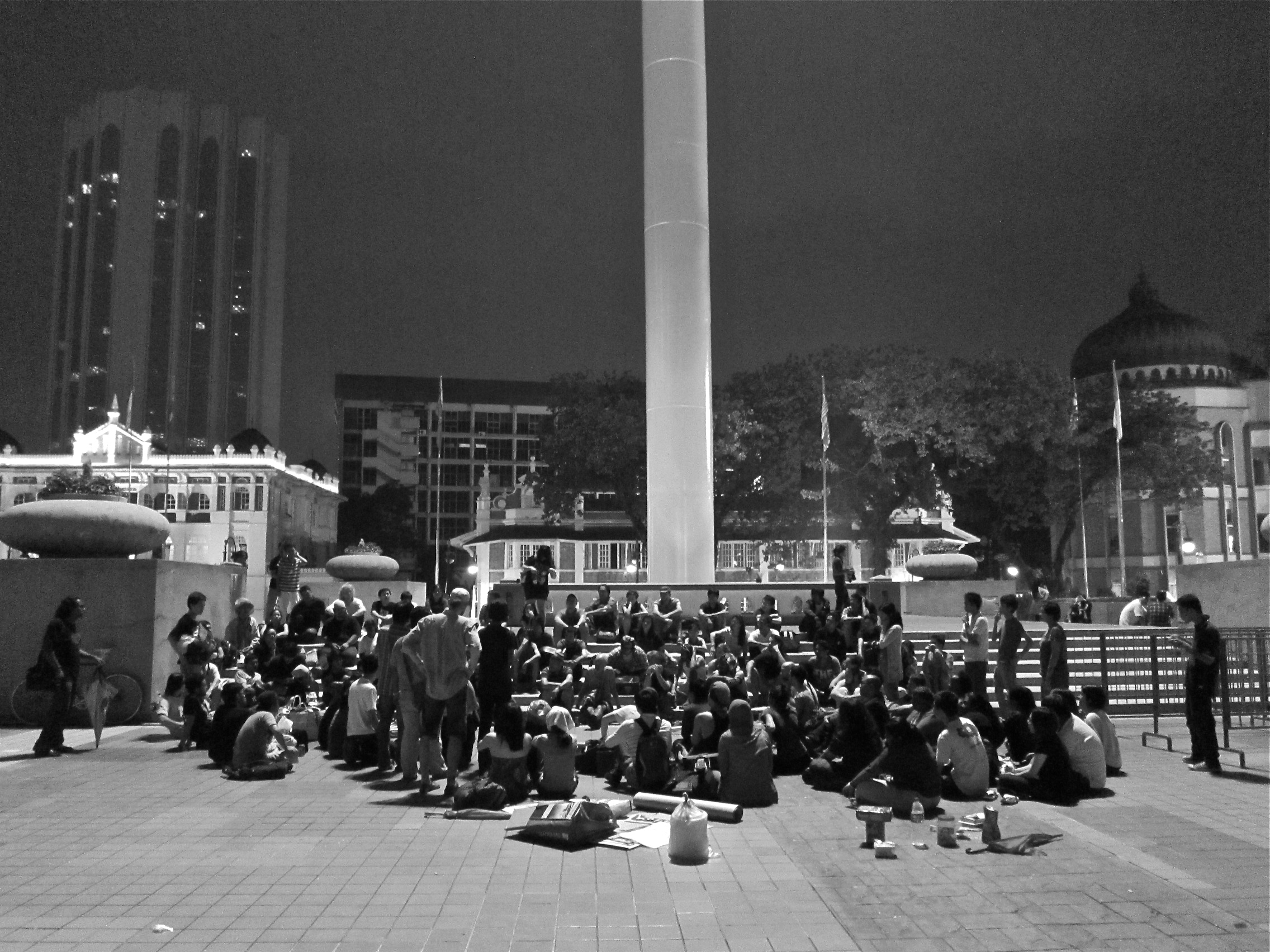 As part of the 15 October 2011 Global Day of Action, Occupy Dataran held a 12-hour program at Dataran Merdeka. Over 200 people attended it, the largest since it started on 30 July 2011.